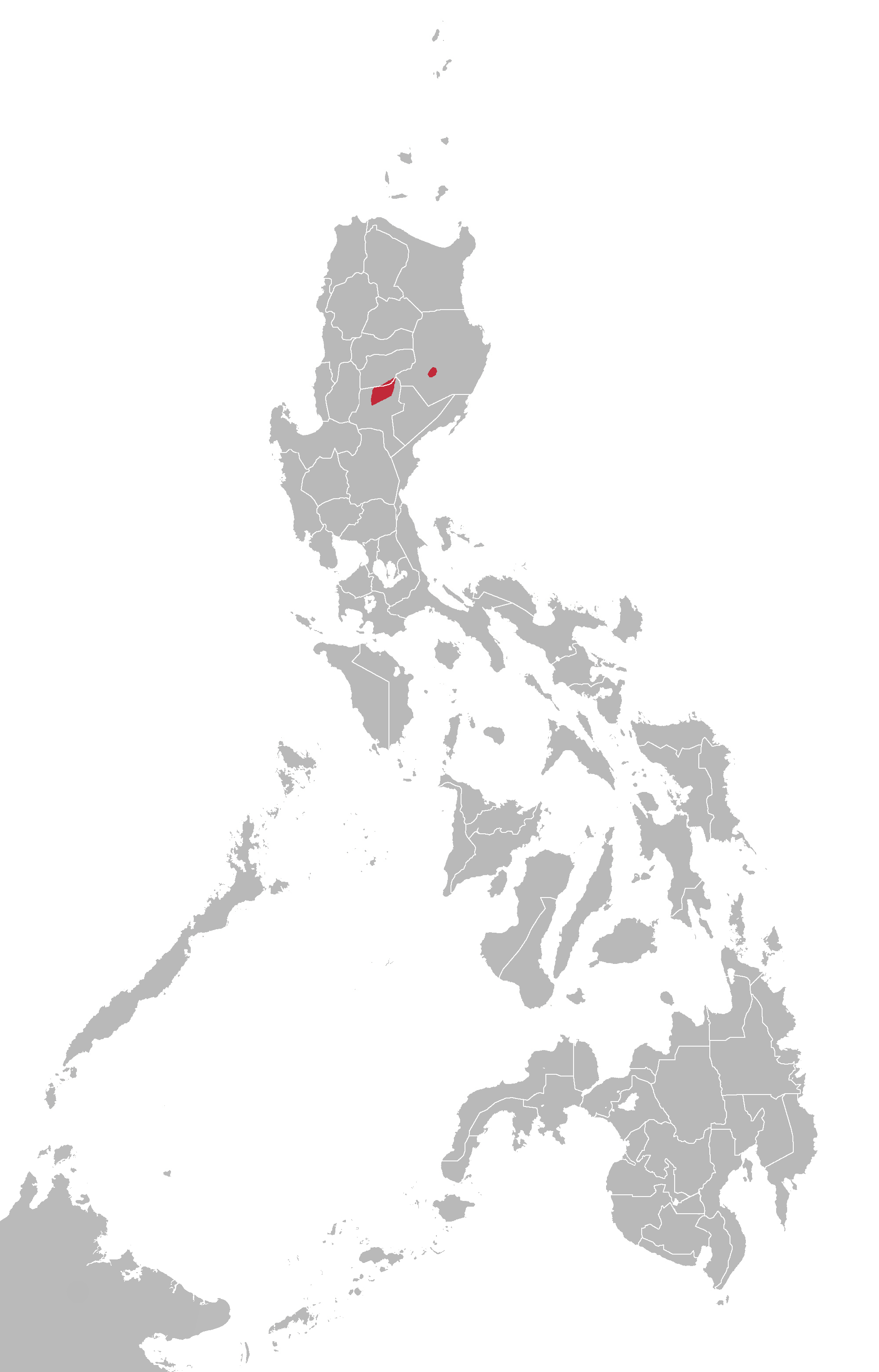 Gaddang language map based on Ethnologue maps